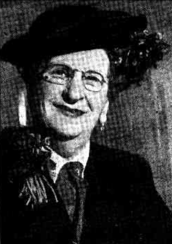 Mary Quirk (1880-1952), NSW Labor politician, c1950